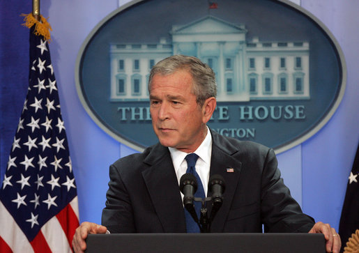 President George W. Bush holds a press conference Wednesday, Oct. 17, 2007, in the James S. Brady Press Briefing Room. "Congress has work to do for our military veterans," said President Bush. "Yesterday I sent Congress legislation to implement the Dole-Shalala commission's recommendations that would modernize and improve our system of care for wounded warriors. Congress should consider this legislation promptly so that those injured while defending our freedom can get the quality care they deserve."